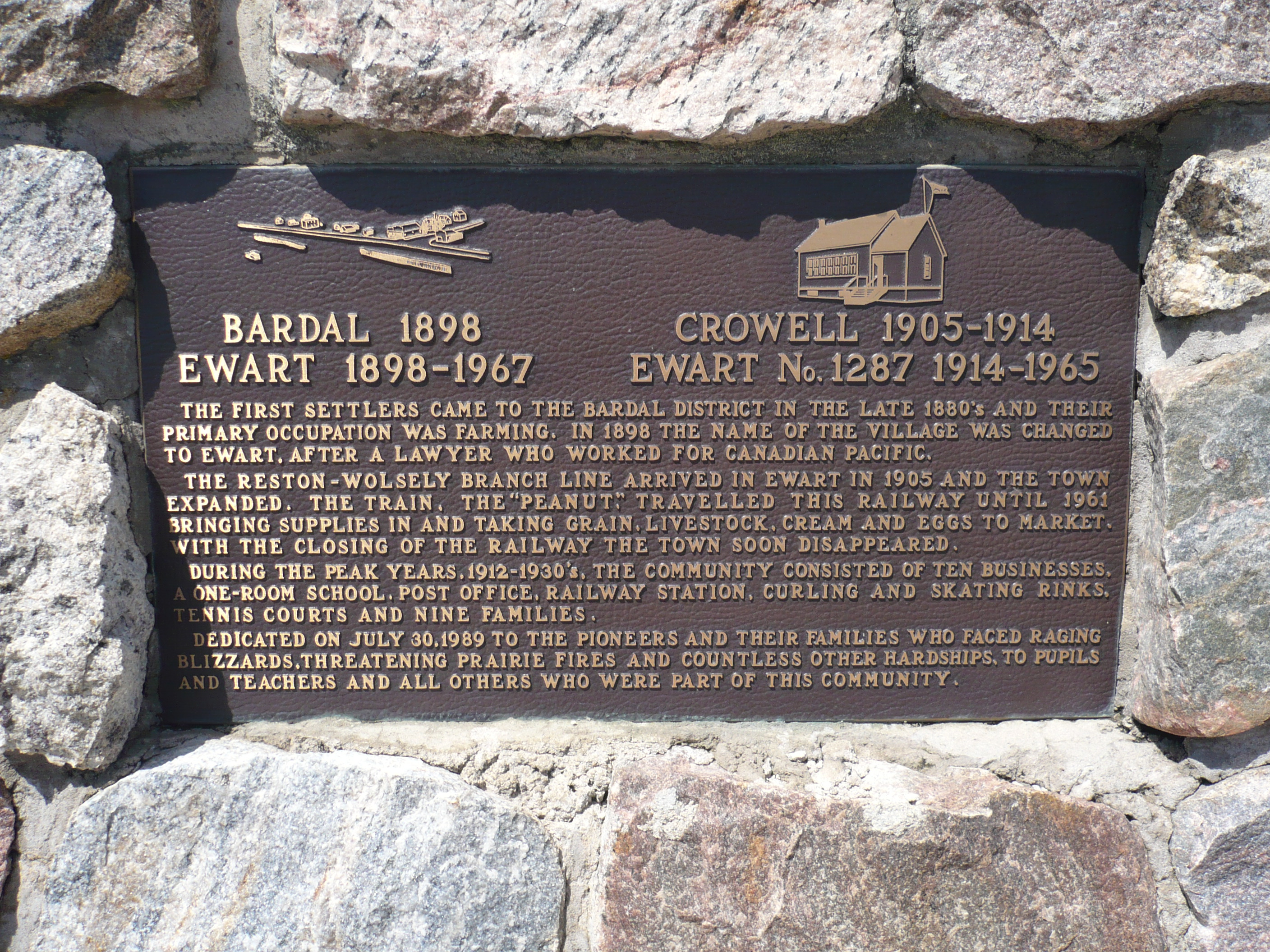 Plaque in the Cairn at Ewart, Manitoba which renders a brief history of the community.